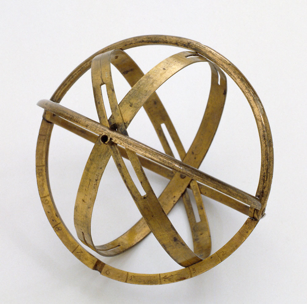 Author Unknown authorDescription